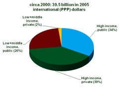 Chart from Beintema, N.M. and Stads, G.J. 2008. Measuring Agricultural Research Investments: A Revised Global Picture. ASTI Background Note. Washington, D.C.: IFPRI.